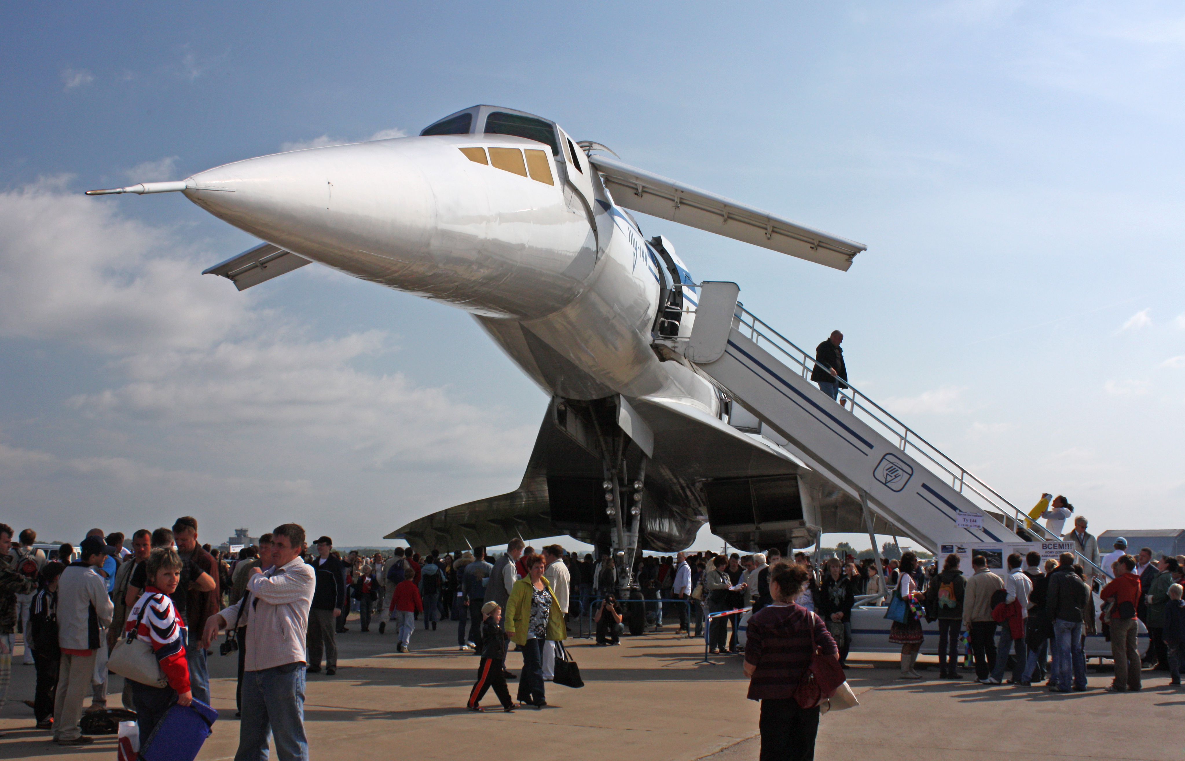 Tupolev Ту-144, a board number 77115 (The international aerospace salon MAKS-2009)